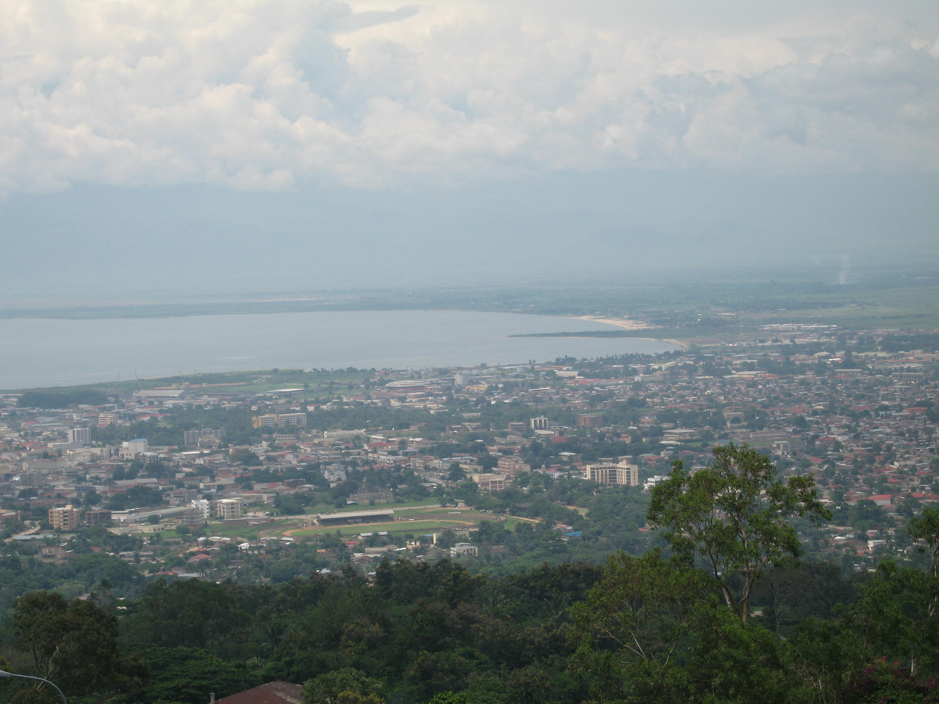 Vista panorámica de Buyumbura. Fotografía tomada desde las colinas de Kiriri. Lago Tanganika al fondo. Panorama view of Bujumbura taken from the hills of Kiriri. Tanganyika Lake at the background.